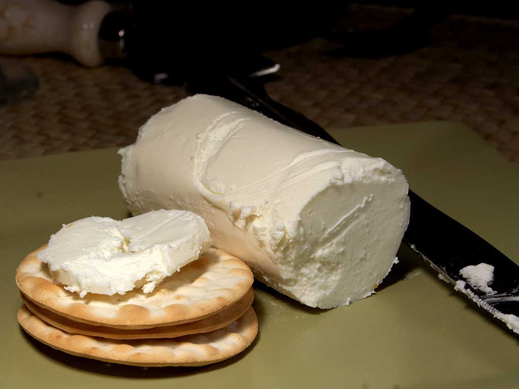 Goat's milk cheese